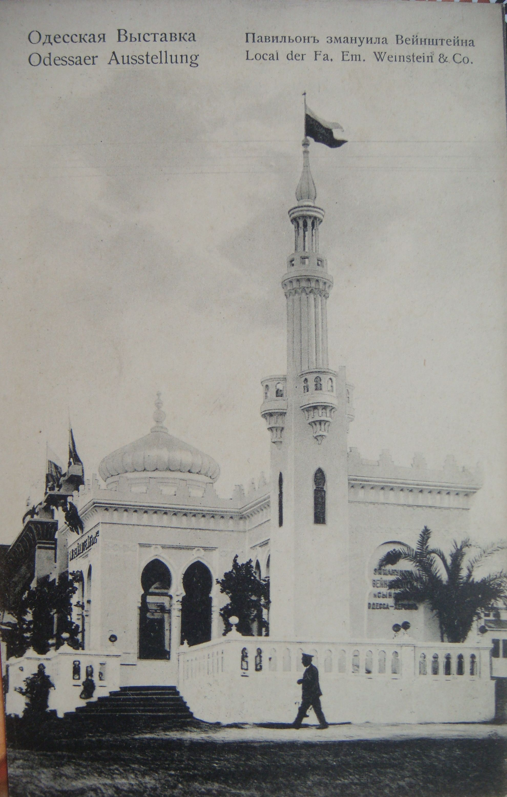 Old Carte Postale (Open Letter) issued in 1910 showed pavilion of Weinshteyn Mills at Odessa Exposition